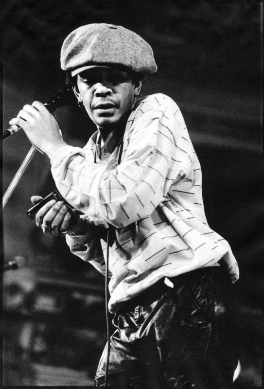 Sugar Blue (James Whiting, born 1949) is an American blues musician, who plays the harmonica. Prague, Lucerna music hall, 26 October 1988